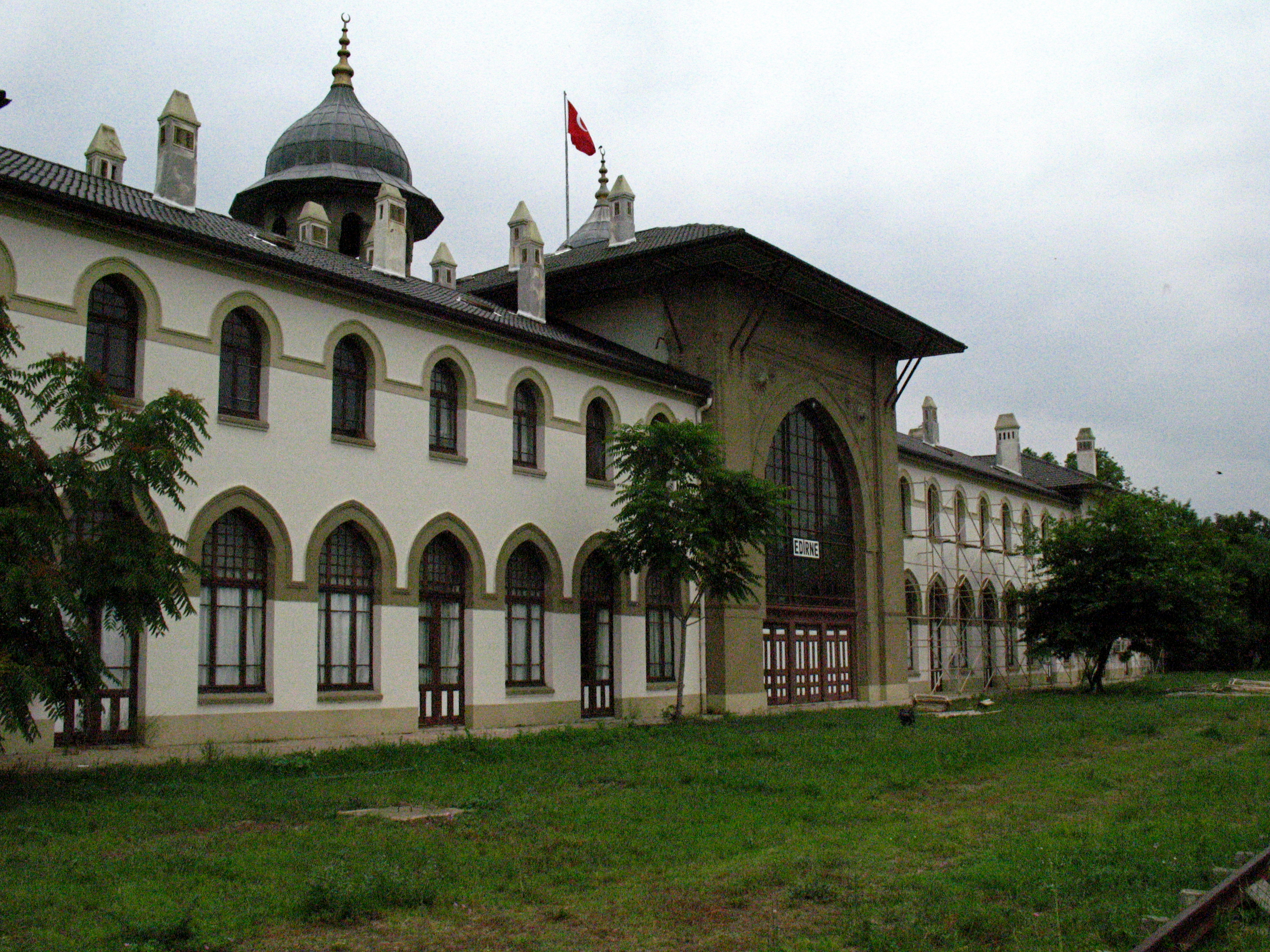 Karaağaç train station in Edirne